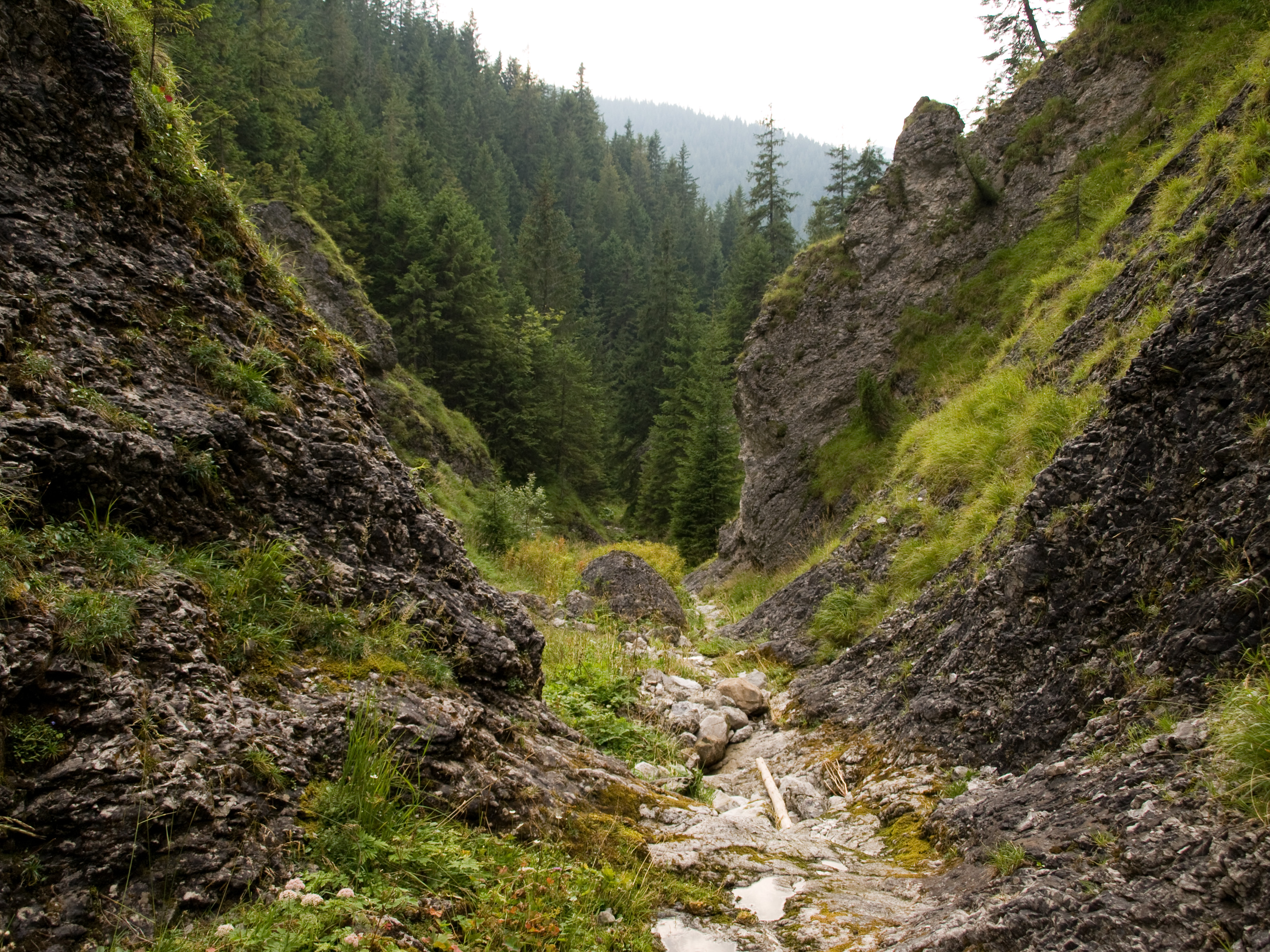 Między Ściany ravine in lower part of Dolina Dudowa.